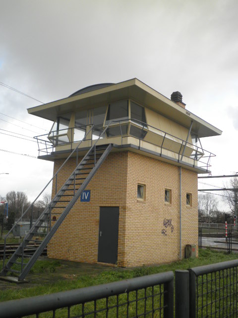 Old signal box near Alkmaar Station, removed from original location.